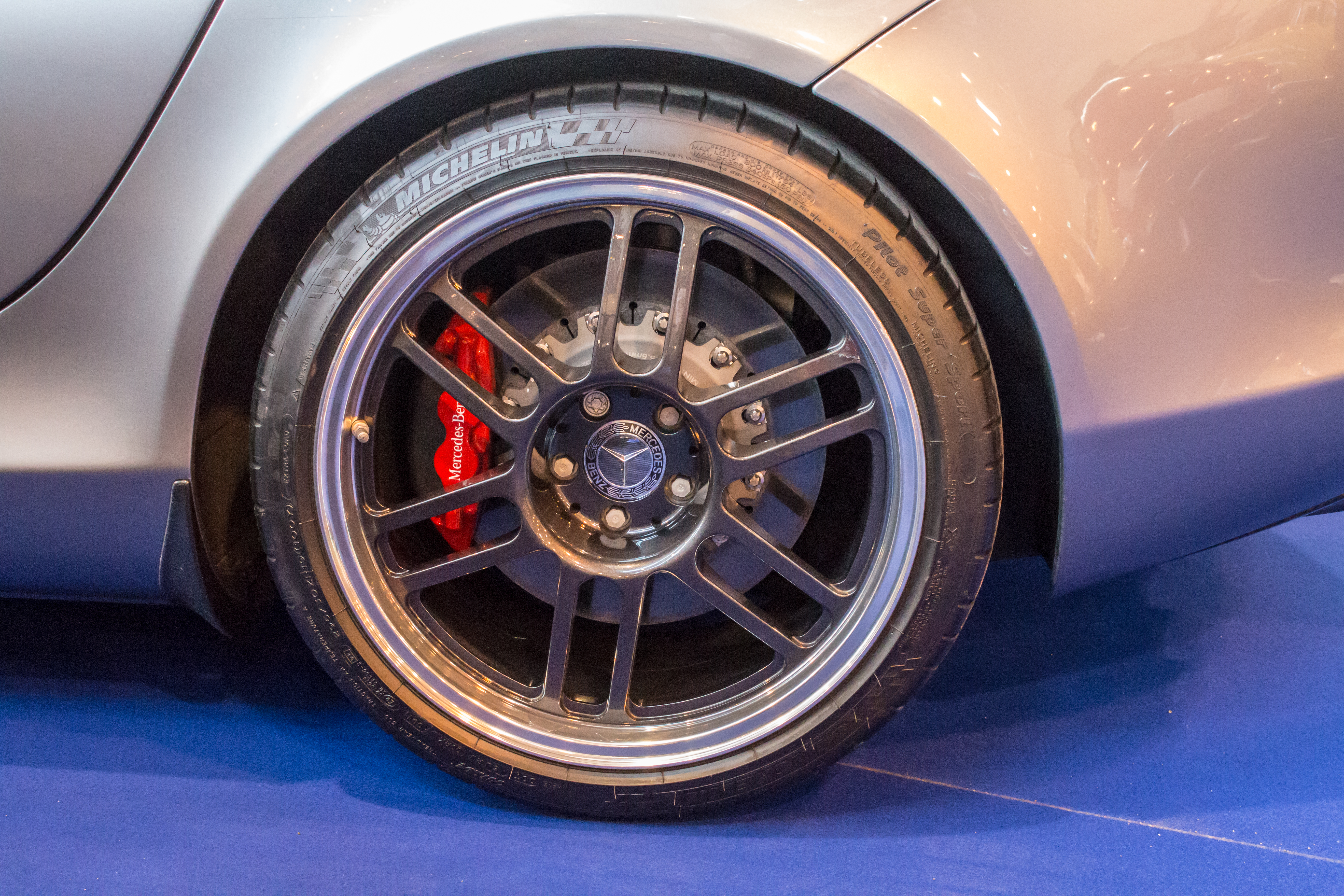 Mercedes-Benz, Techno-Classica 2018, Essen